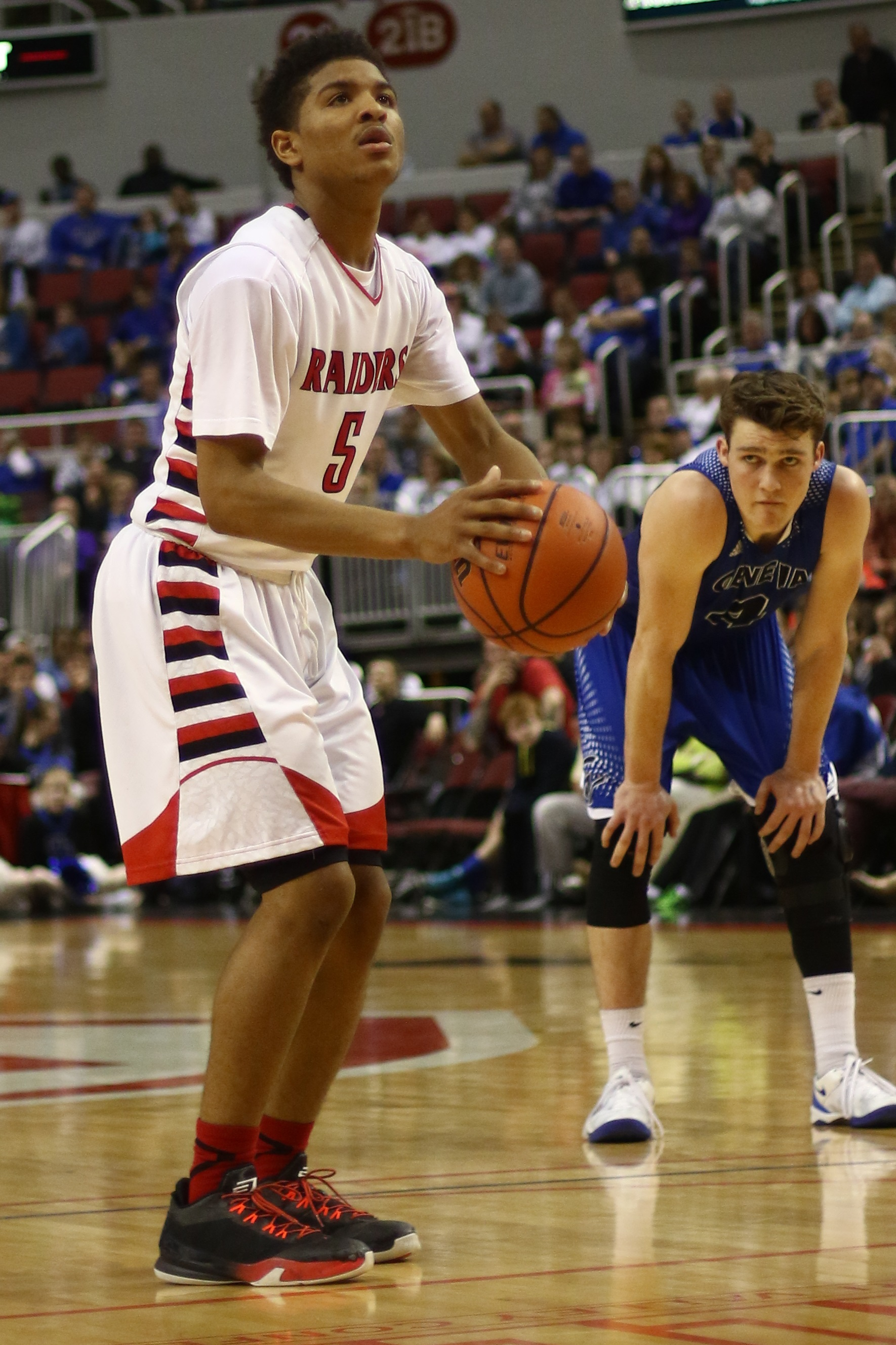 Prentiss Nixon in the 2015 IHSA Class 4A consolation game